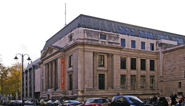 Geological Museum building, Exhibition Road, London SW7. This is now part of the Natural History Museum, and houses the Earth Galleries. Looking across Exhibition Road in the direction of Cromwell Road.